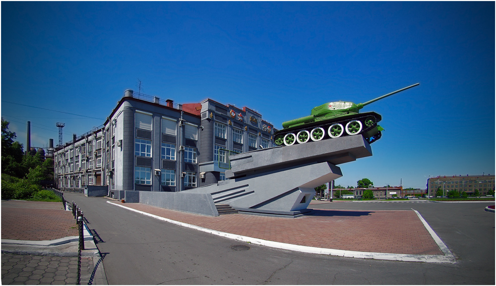 Factory management Kuznetsk Metallurgical Plant named after VI Lenin. Tank "T-34" - a monument to exploit the labor of workers Kuznetsk metallurgical combine in the Great Patriotic War. Arh. Avdeev EA, arh. Zhuravkov YuM, 1941 - 1945, 1973 (Victory Square, the city of Novokuznetsk, Kemerovo region, Russia)